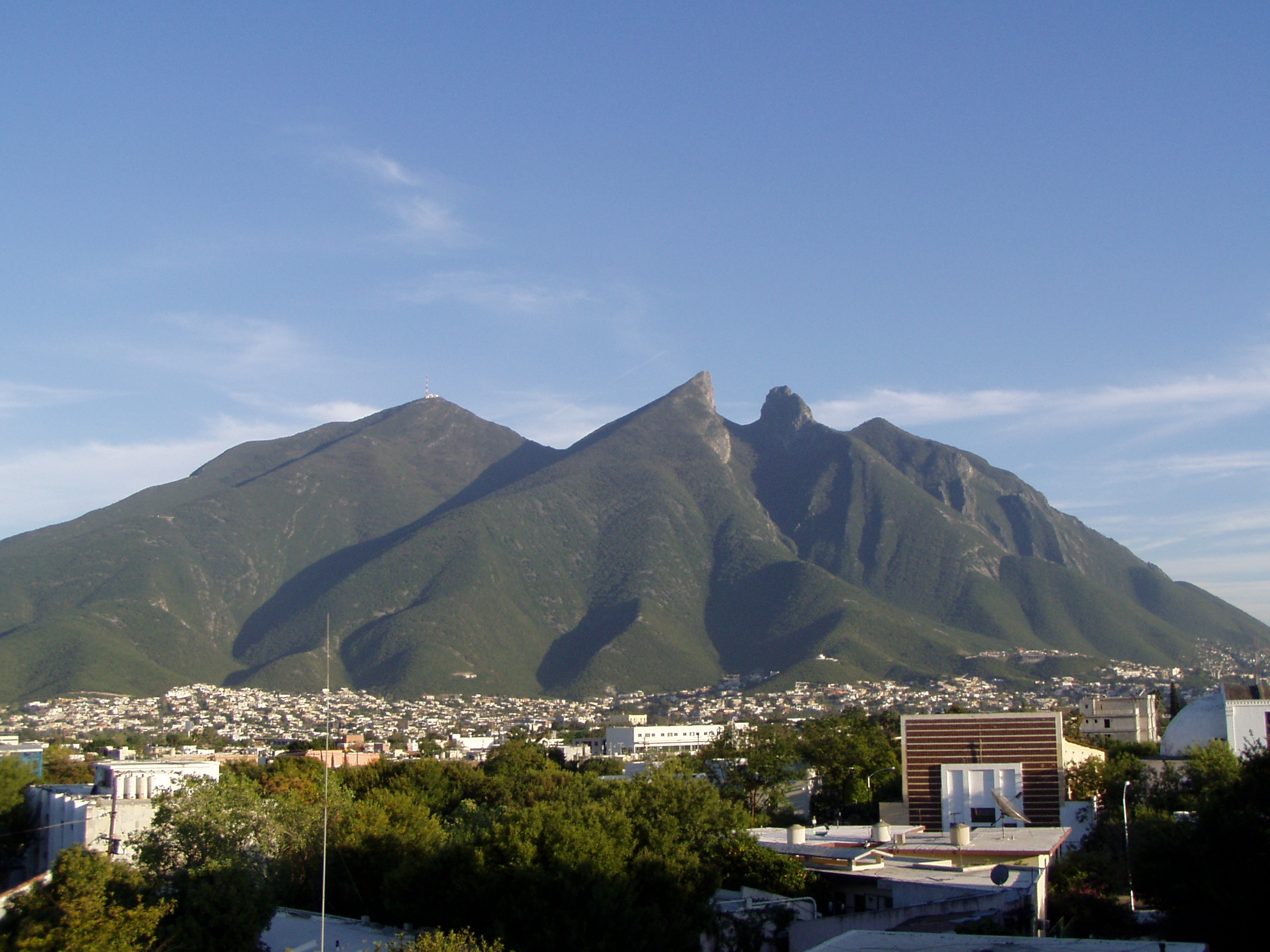 A photograph of Cerro de la Silla, a mountain in Monterrey, Mexico.